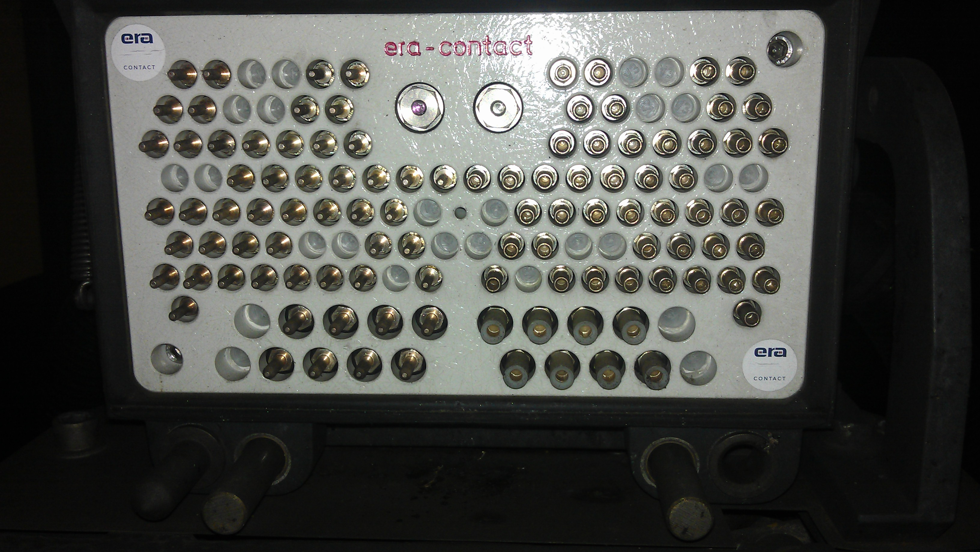 Electric coupling of a Stadler Kiss with Scharfenberg coupler